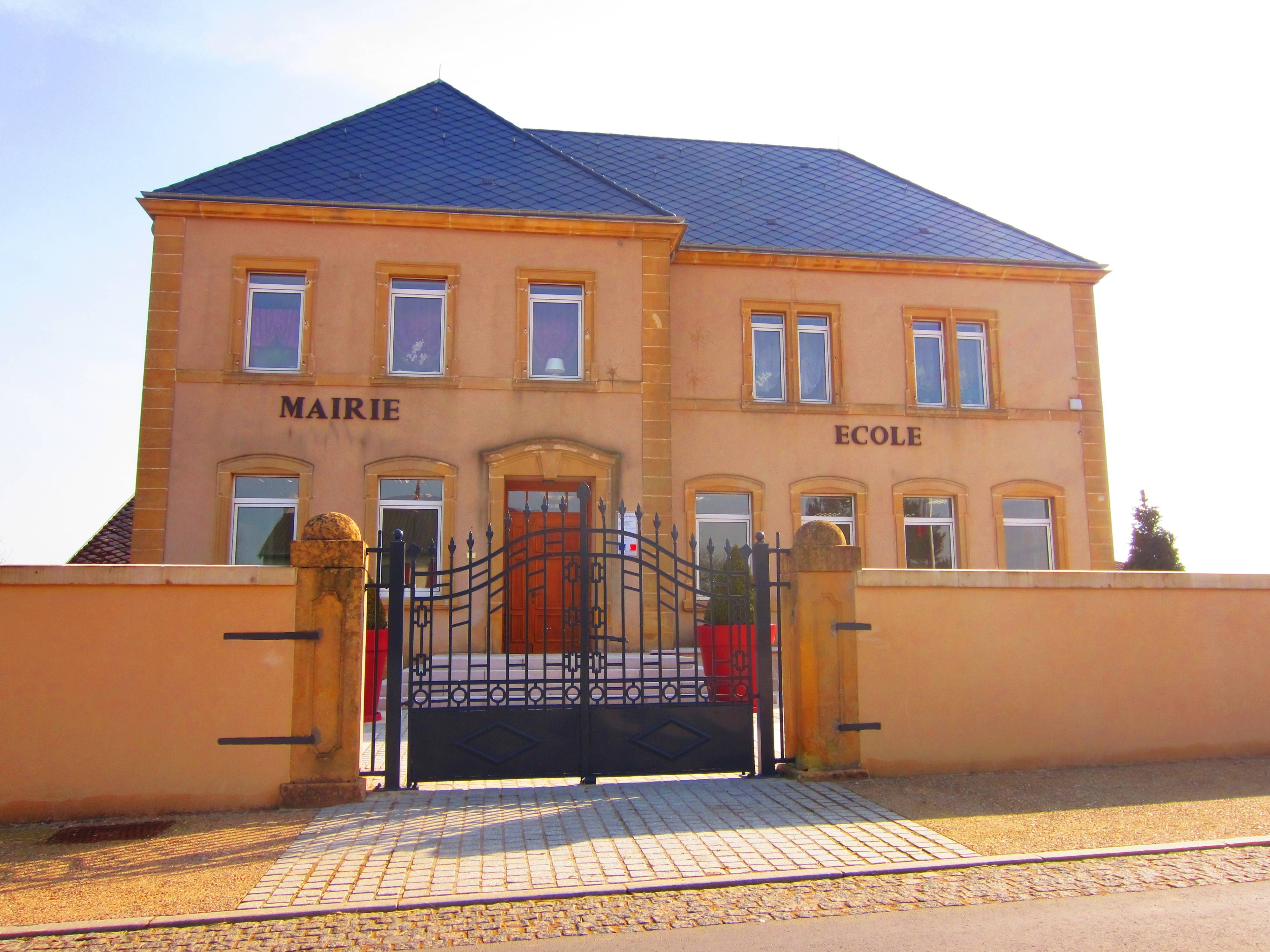 Basse Rentgen town council